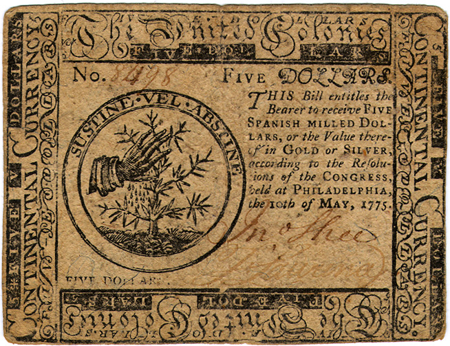 Continental Currency $5 banknote obverse (May 10, 1775)